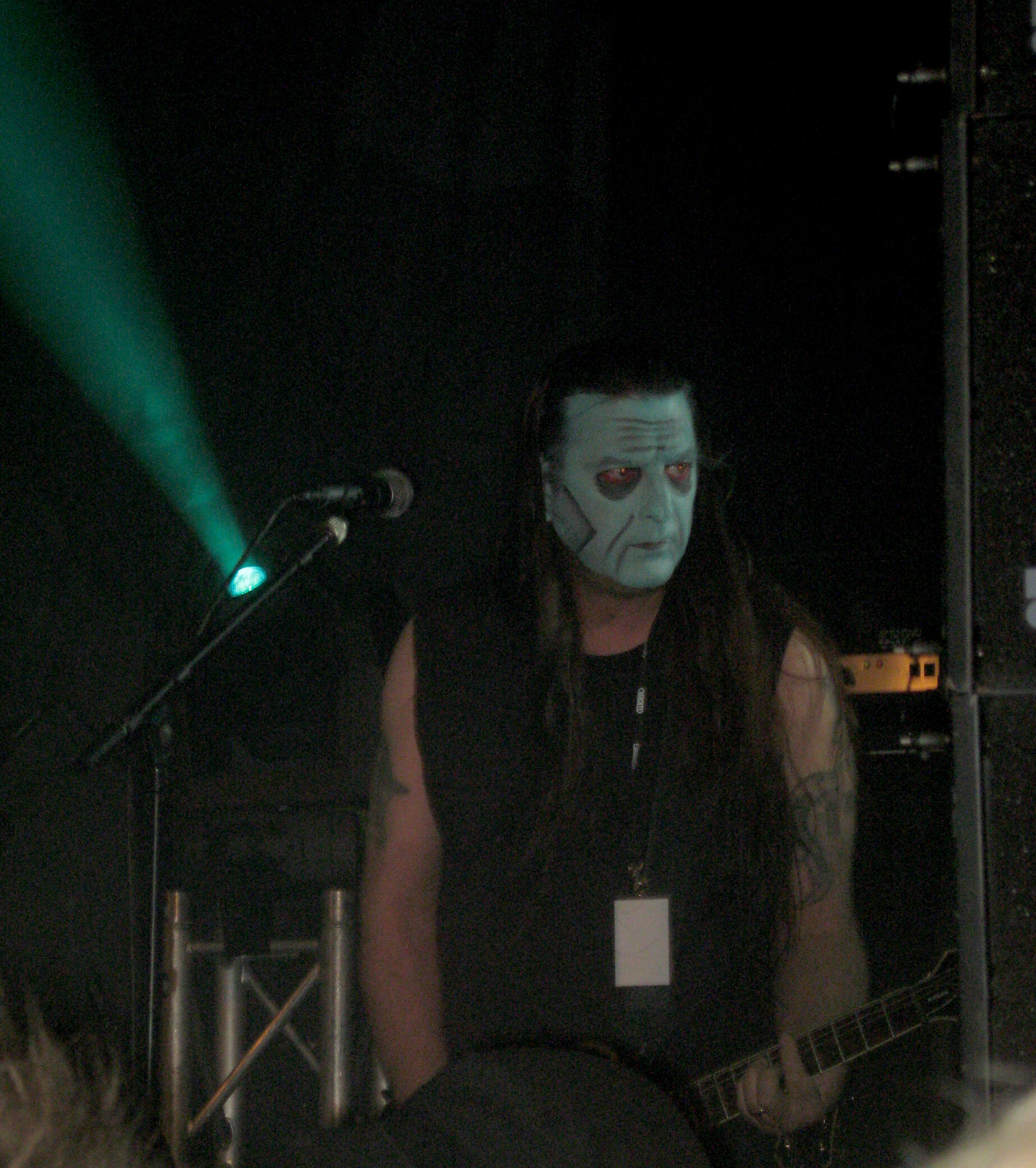 Dez Cadena playing with Misfits at Rockbåten.